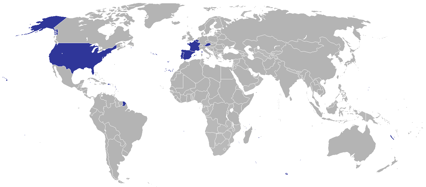 diplomatic missions of Andorra